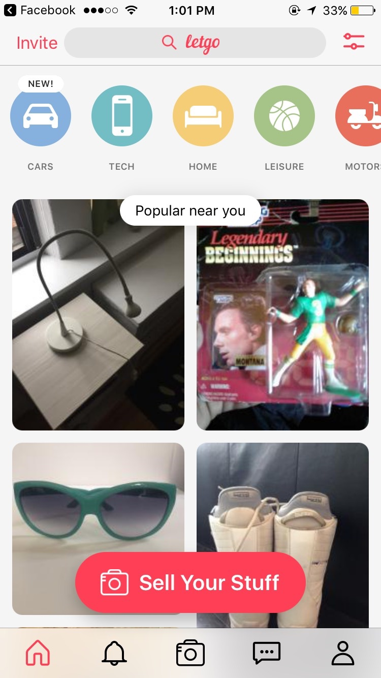 The Letgo app